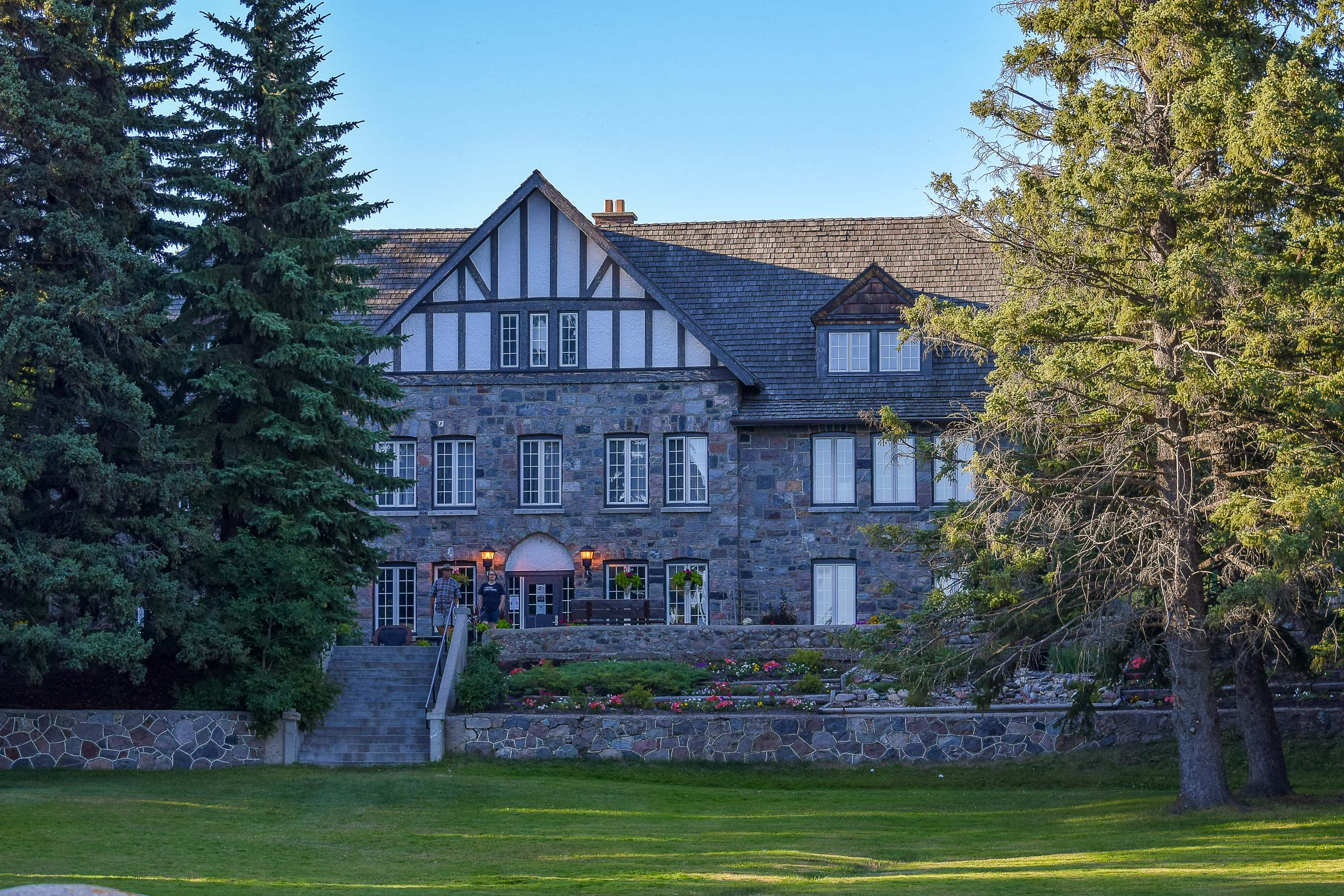 kenosee, moose mountain, lodge building